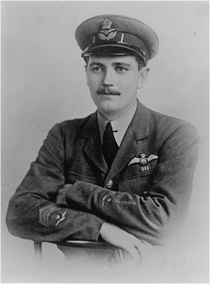 Posed photo of Harold Leslie Edwards taken at a London Studio 1918